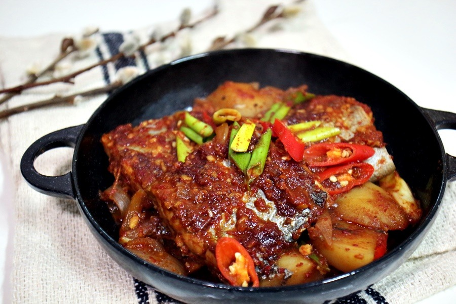 galchi-jorim (braised hairtail)